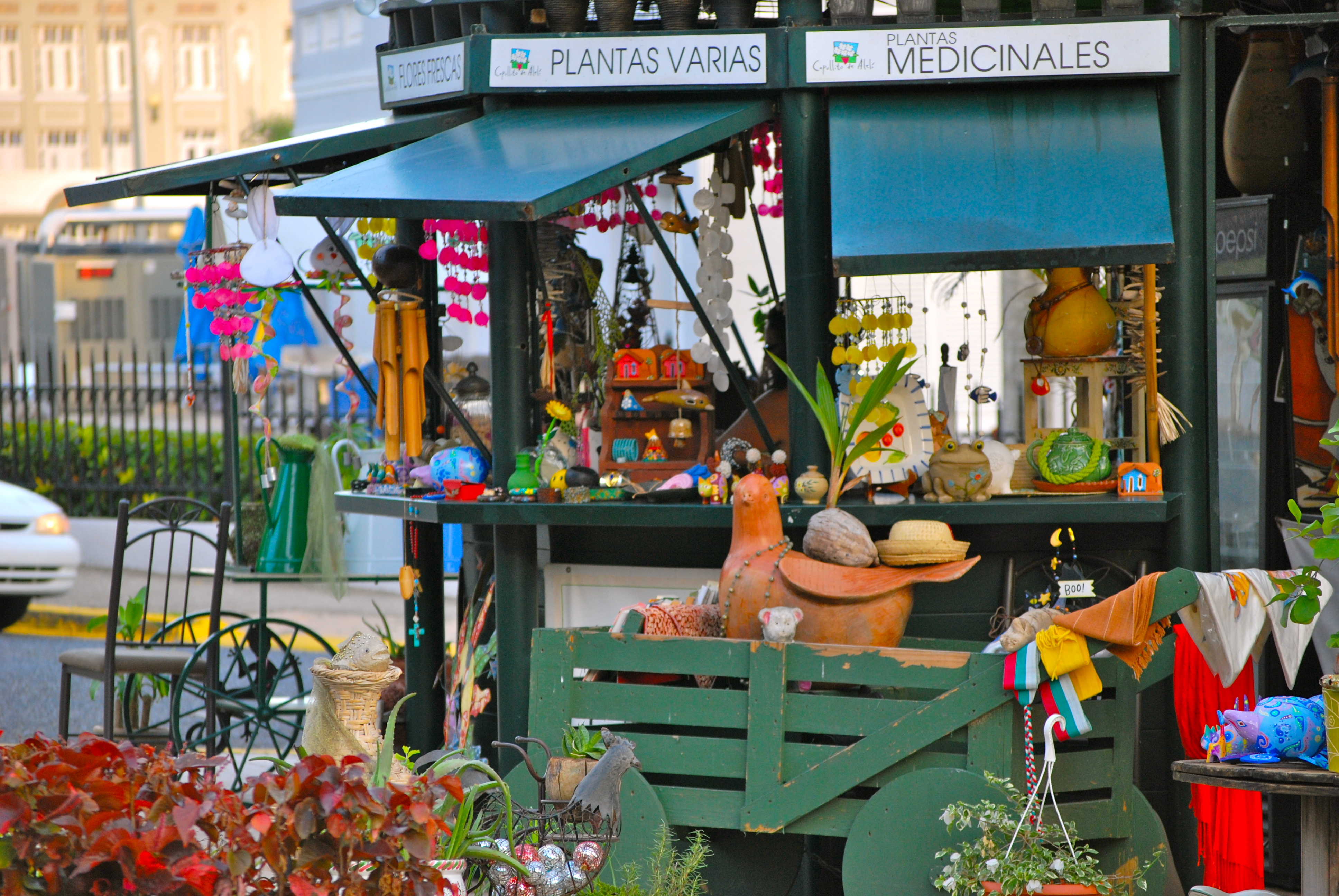 Old San Juan, the oldest section of San Juan, Puerto Rico